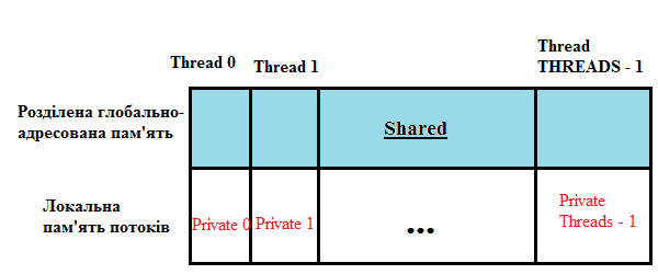 Рис. 1. Представлення